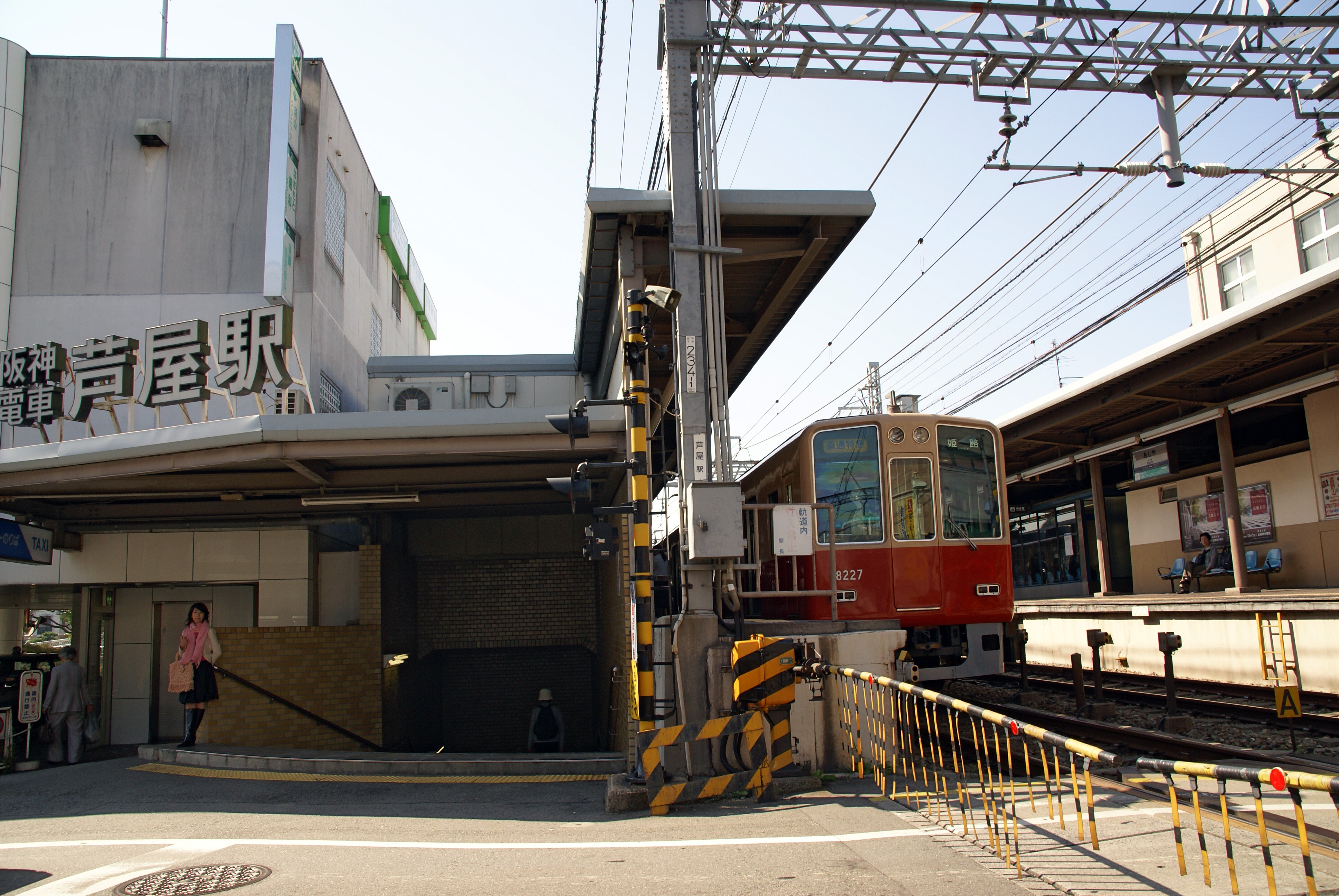 Hanshin Ashiya Station in Ashiya, Hyogo prefecture, Japan